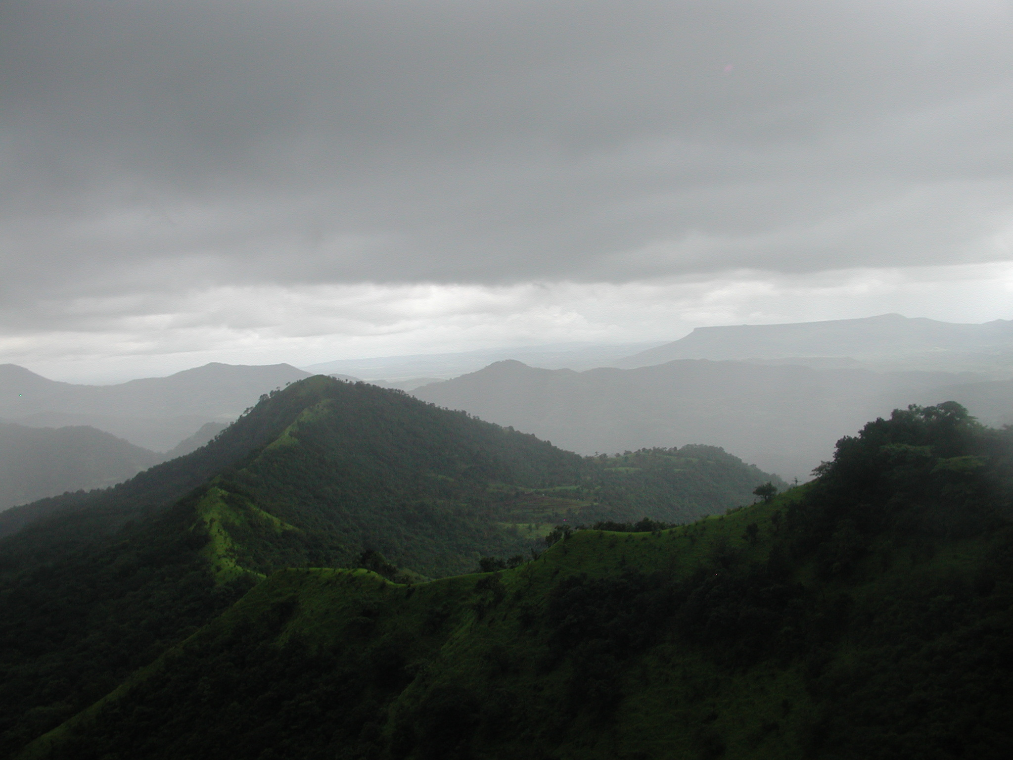 Monsoon in the Westghats in Maharashtra, India